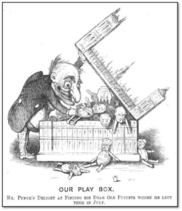 A cartoon by Charles H Bennett titled 'Our Toy Box' published in Volume 48 - 7 (January 1865 to 1 July 1865)